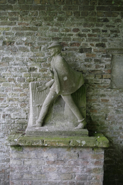 Burgstraat (nabij OLVrouwekerk); Damme; West-Vlaanderen, Belgium; ref: PM_003982_B_Damme; bas-relief; Bas-reliëf als hulde voor Tijl Uilenspiegel, 20ste eeuw, Zandsteen; Photographer: Paul M.R. Maeyaert; © Paul M.R. Maeyaert; ; Cultural heritage; Cultural heritage/Sculpture; Europe/Belgium; Europe/Belgium/Damme